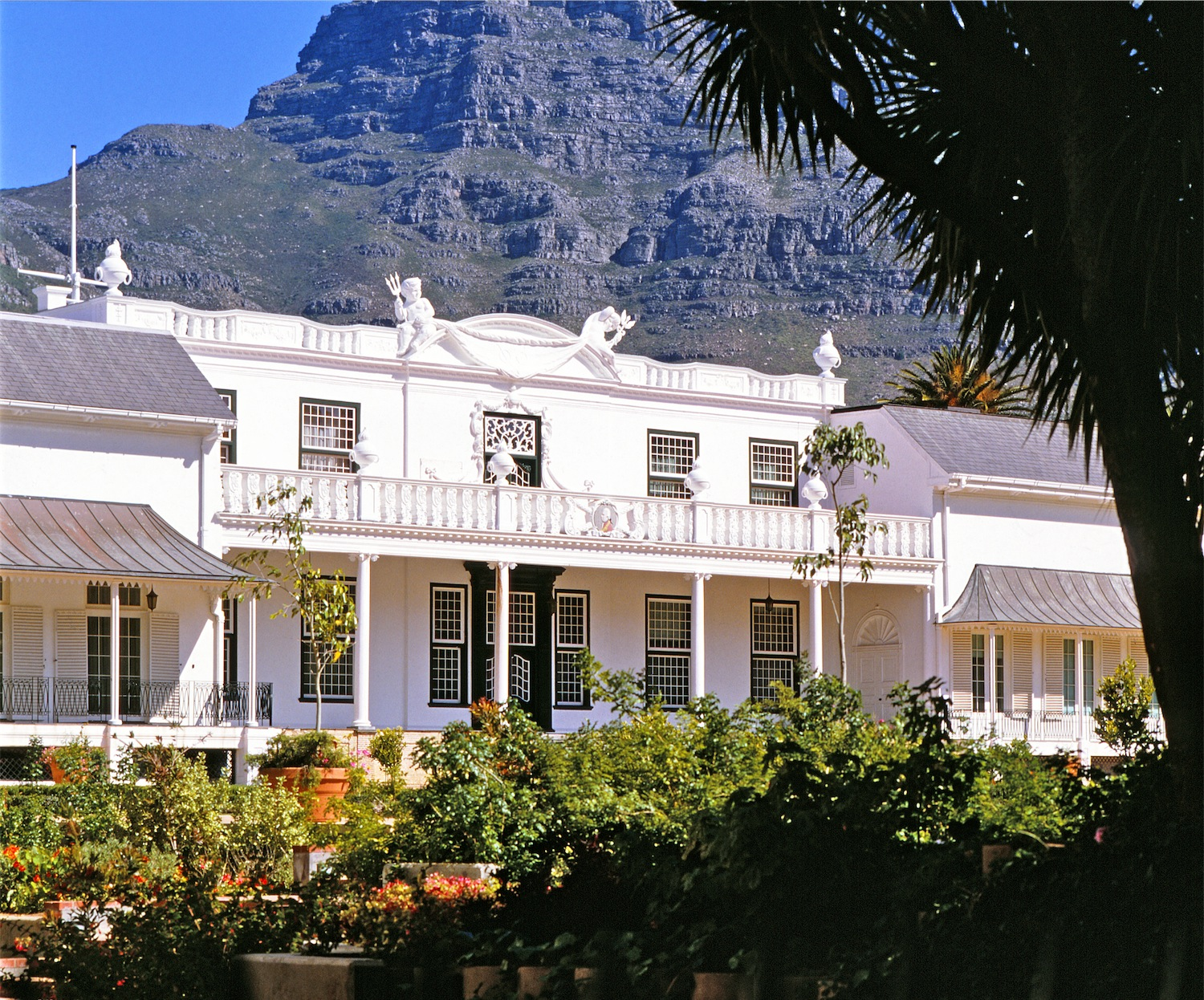 Tuynhuys, Stalplein, Cape Town Architectural style: CAPE DUTCH. Type of site: Government House Current use: Residential.